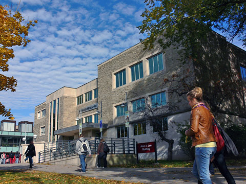 McMaster Museum of Art, McMaster University, Hamilton, Ontario